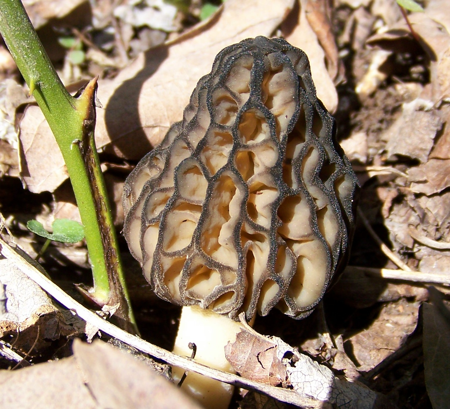 Morchella elata, the black morel. Photo taken in Indiana Co., Pennsylvania, USA